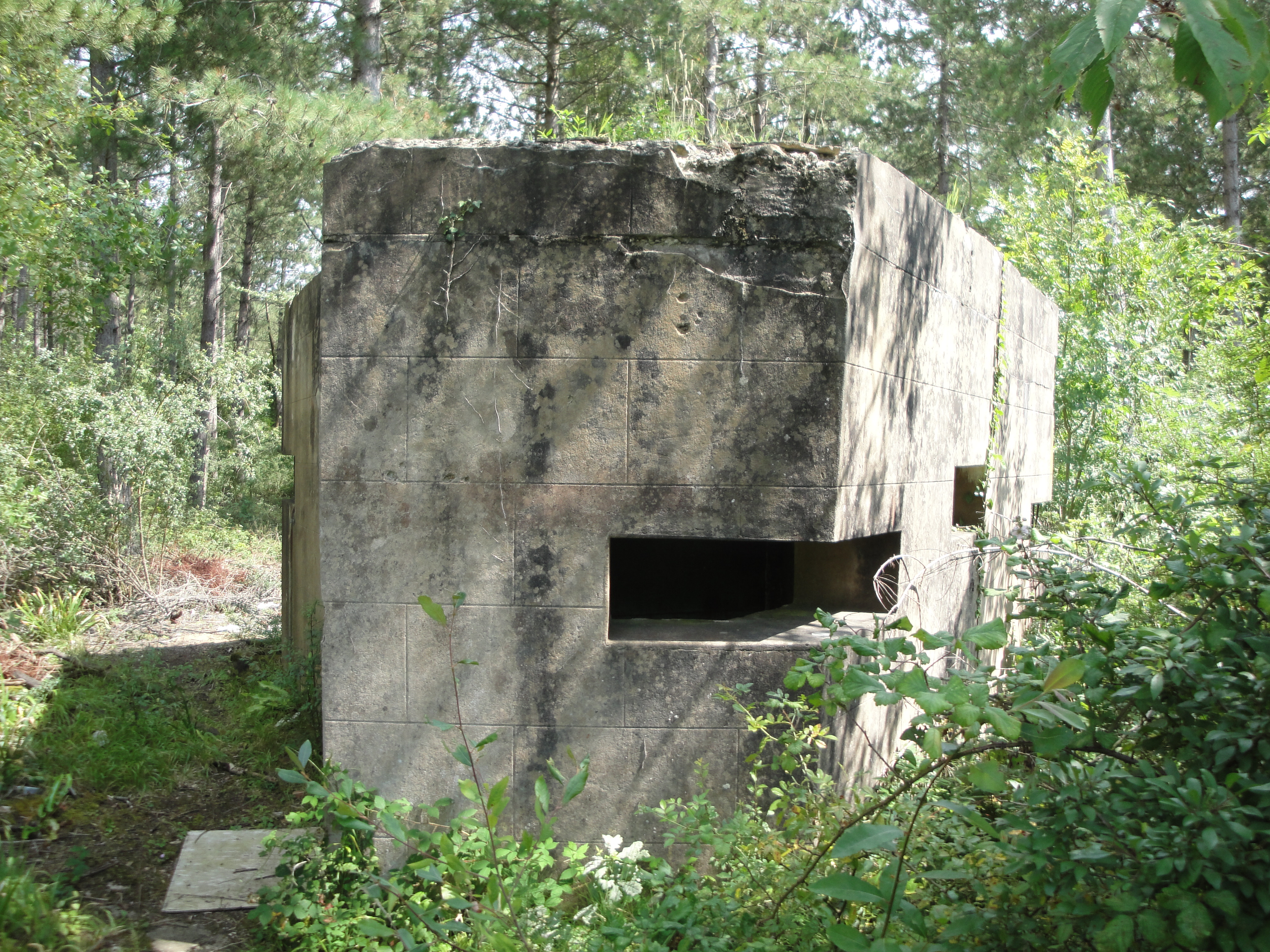 Bouldnor Battery, located inside Bouldnor Forest, Bouldnor, Isle of Wight.